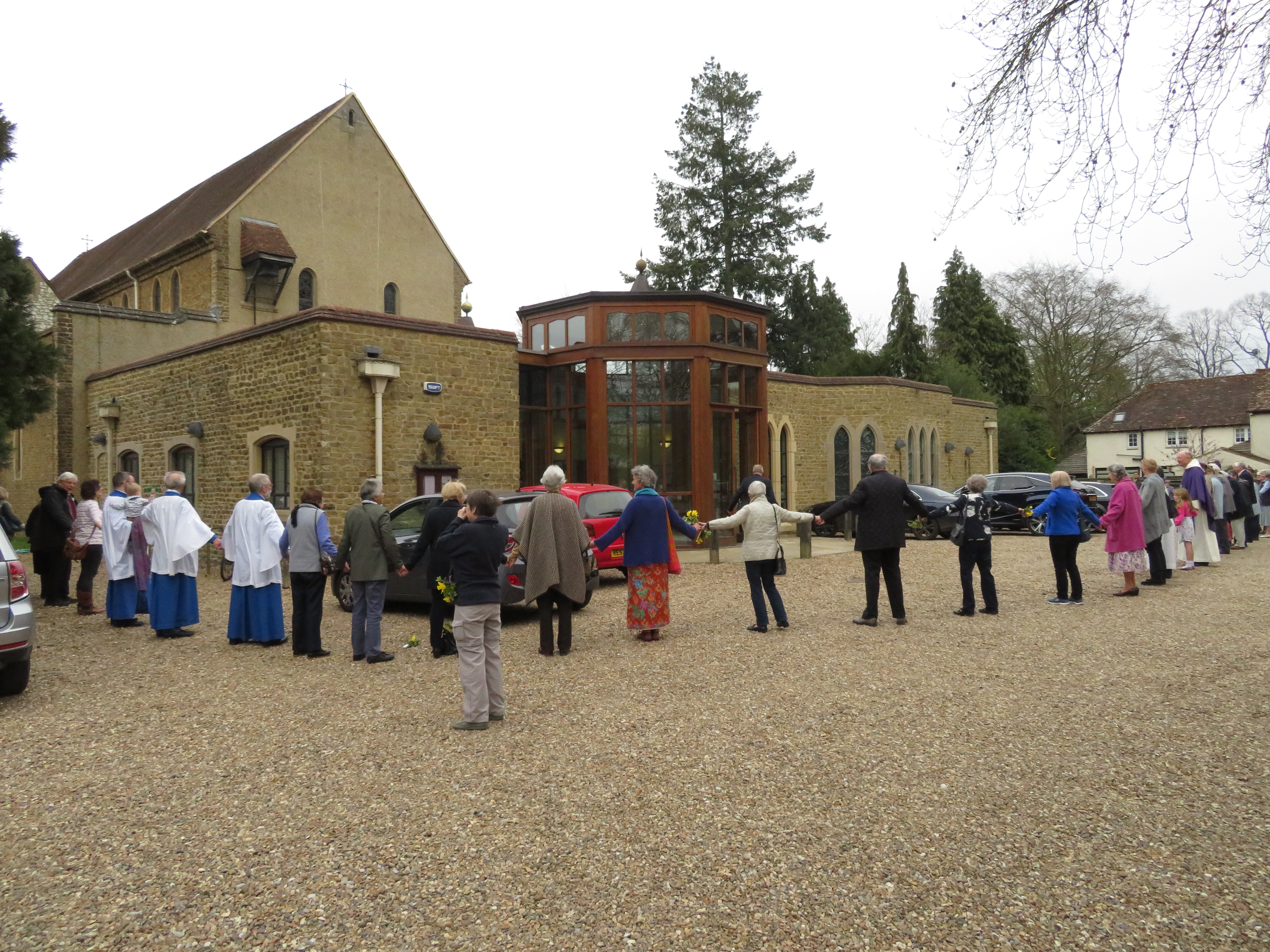 Clypping the Church at St Thomas-on-The Bourne church, Farnham, Surrey on Mothering Sunday, 31 March 2019.